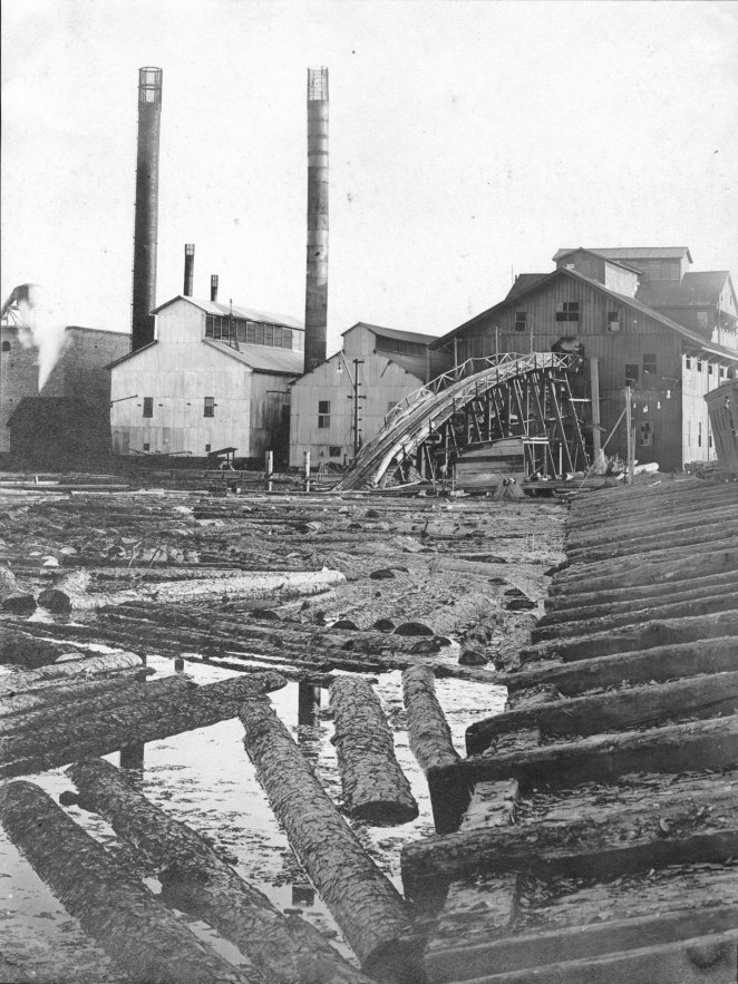 Photograph of the Southern Pine Lumber Company sawmill 1, also called the yellow pine mill, looking from the mill pond. The log loading dock is depicted on the right. Notice the "endless chain" incline descending from the mill into the pond. The white buildings to the left of the mill are power houses.